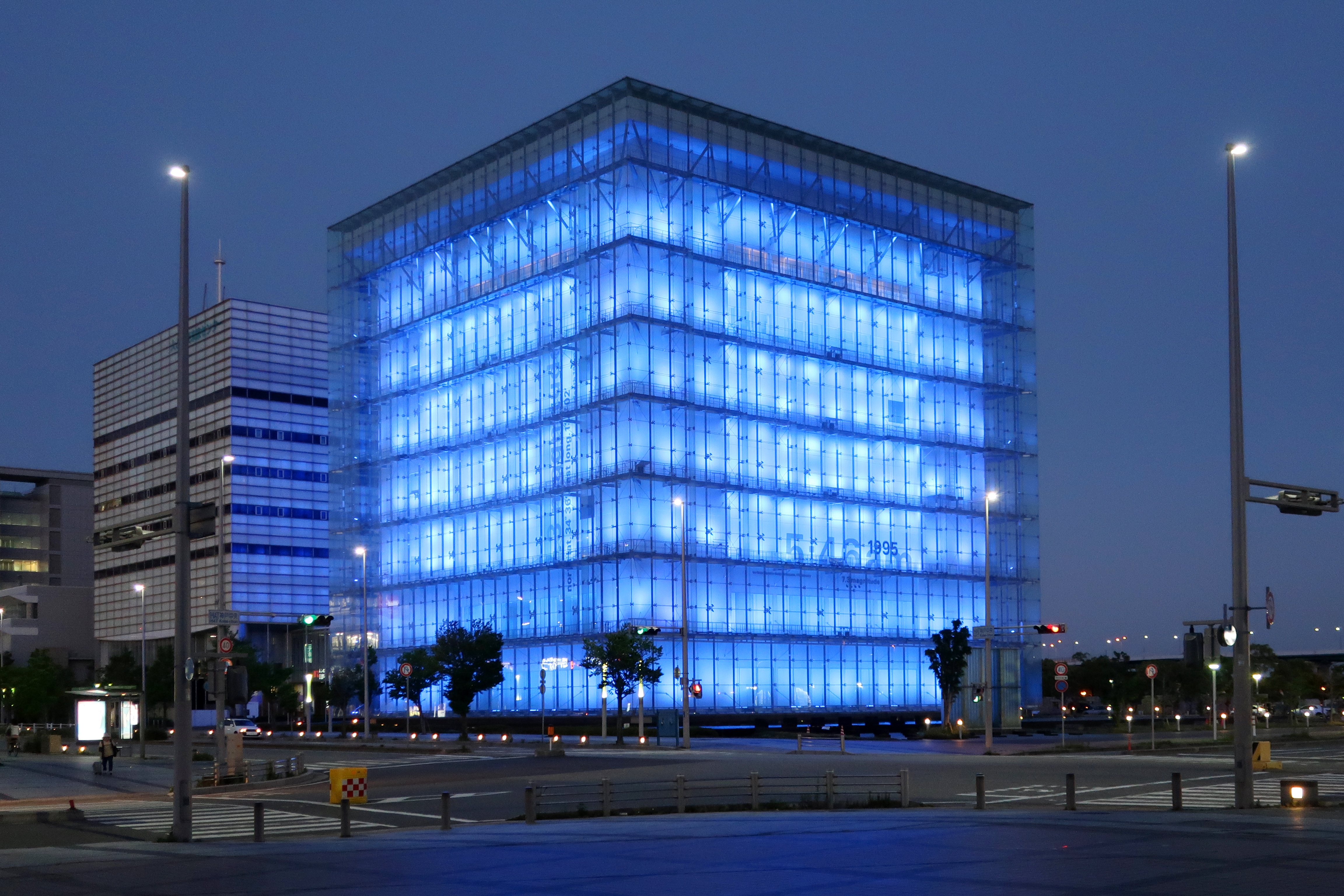 Disaster Reduction and Human Renovation Institution (人と防災未来センター西館), Kobe, Hyogo prefecture, Japan. Canon PowerShot G9 X Mark II